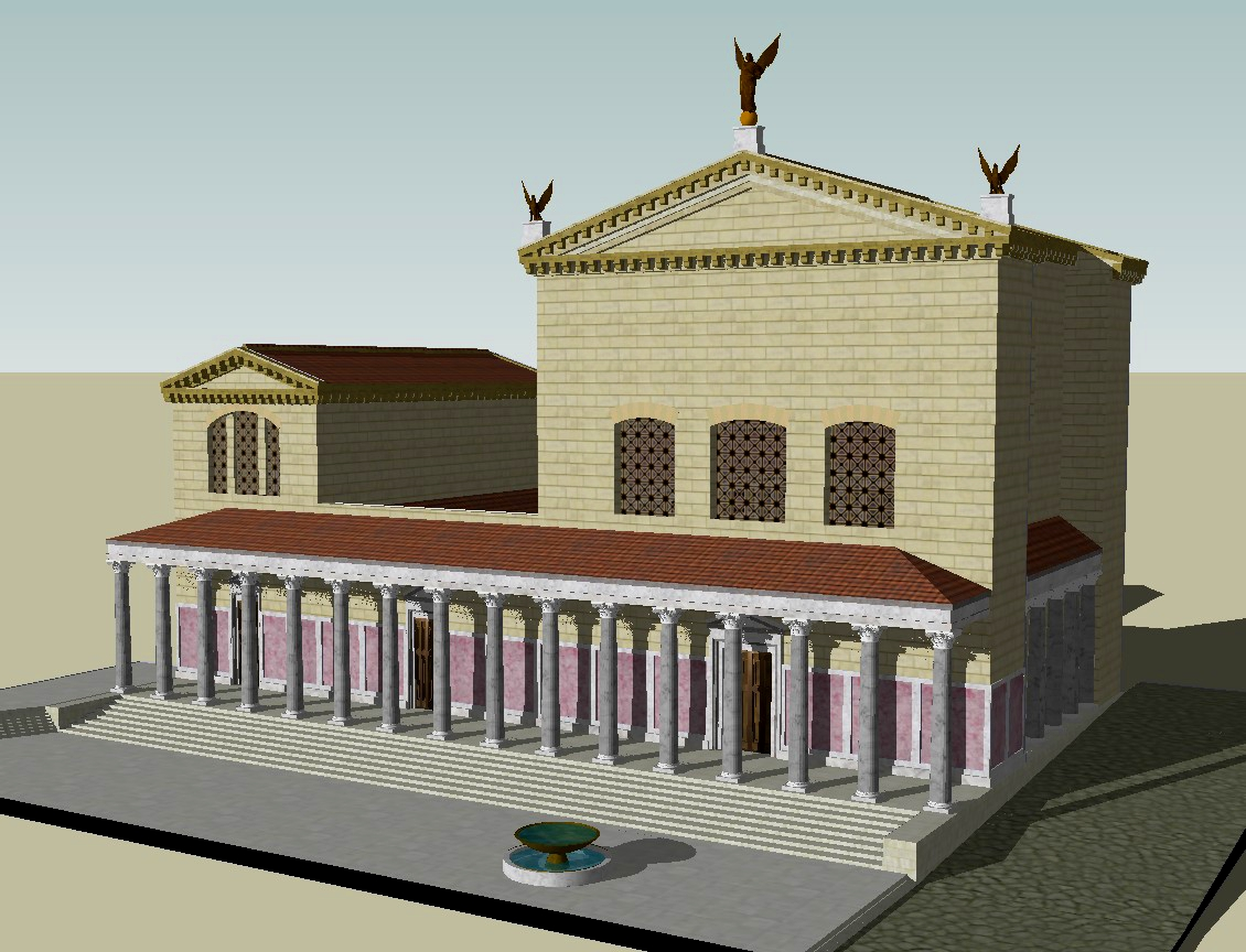 This is a derivative work of a 3D, Computer generated image of the Curia Julia by the model maker, Lasha Tskhondia - L.VII.C.[1]. Variations to the original model include shadows, adjusted for good lighting as well as the file being adjusted for color and contrast.